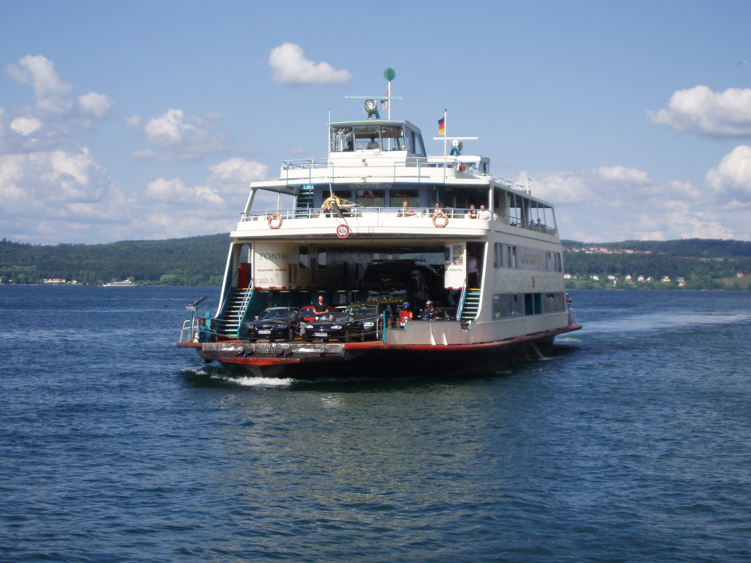 Fontainebleau